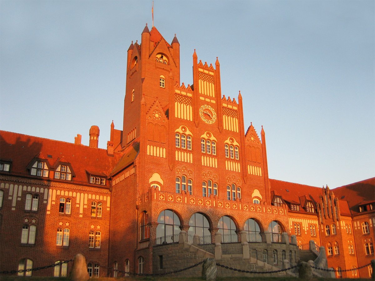 Main building and tower of the "Marineschule Mürwik", Germany's naval officers school in Flensburg-Mürwik.